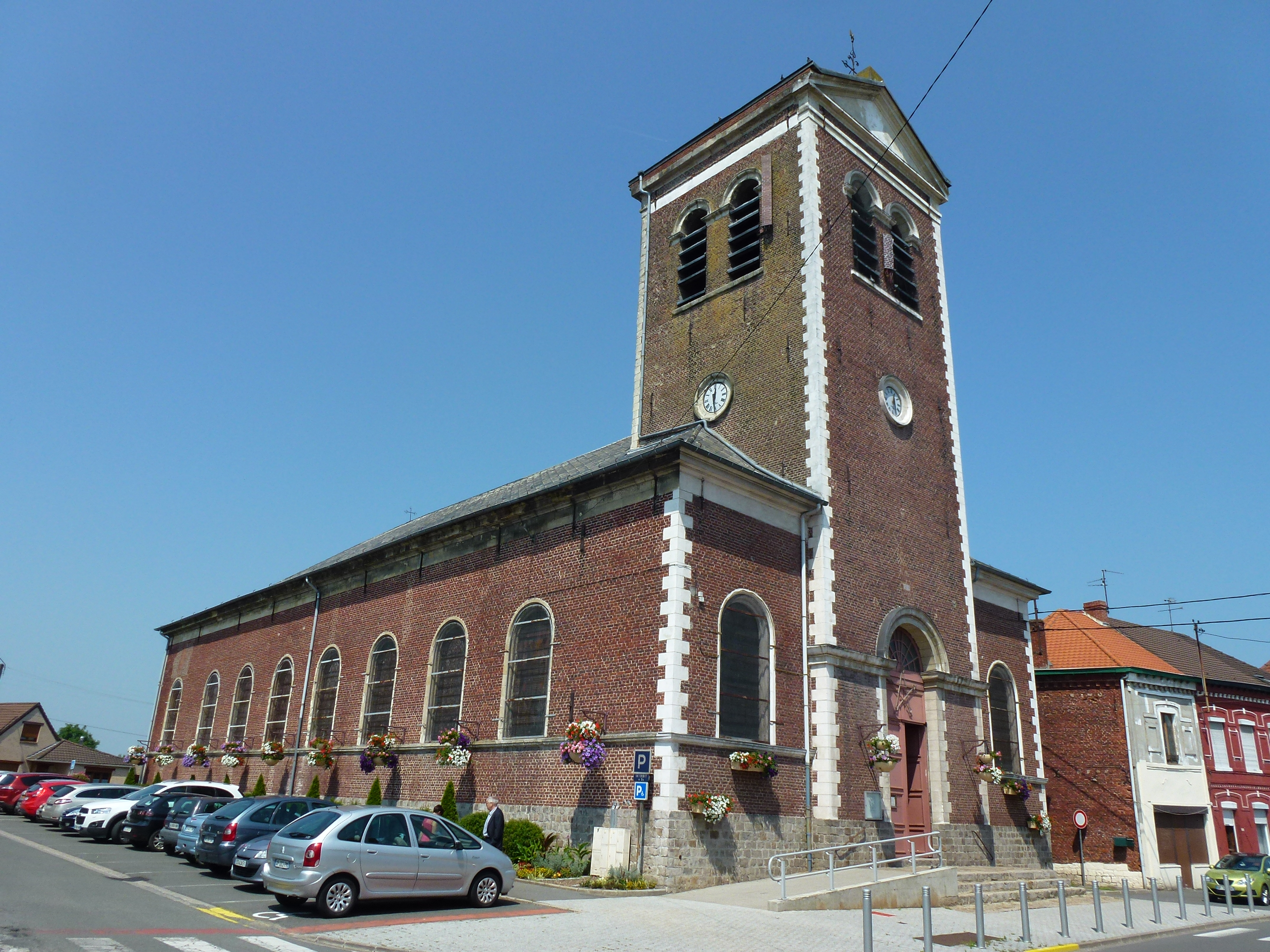 Fenain (Nord, Fr) église extérieur